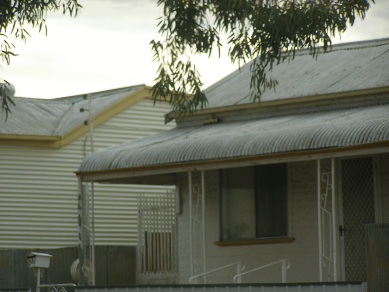 Houses with corrugated iron walls, Broken Hill, New South Wales